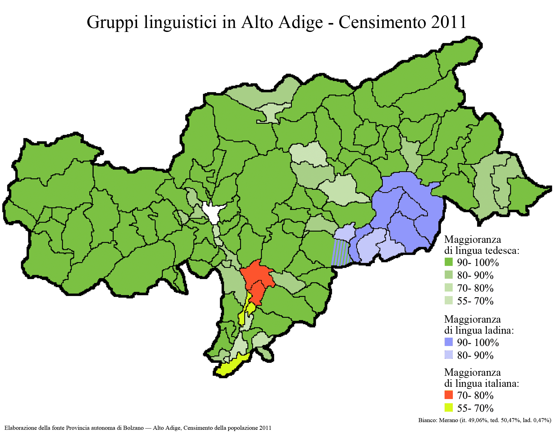 Majority languages in the South Tyrolean municipalities (communes) according to the last census of 2011. Green: German (103 municipalities) Blue: Ladin (8 municipalities) Red: Italian (5 municipalities)